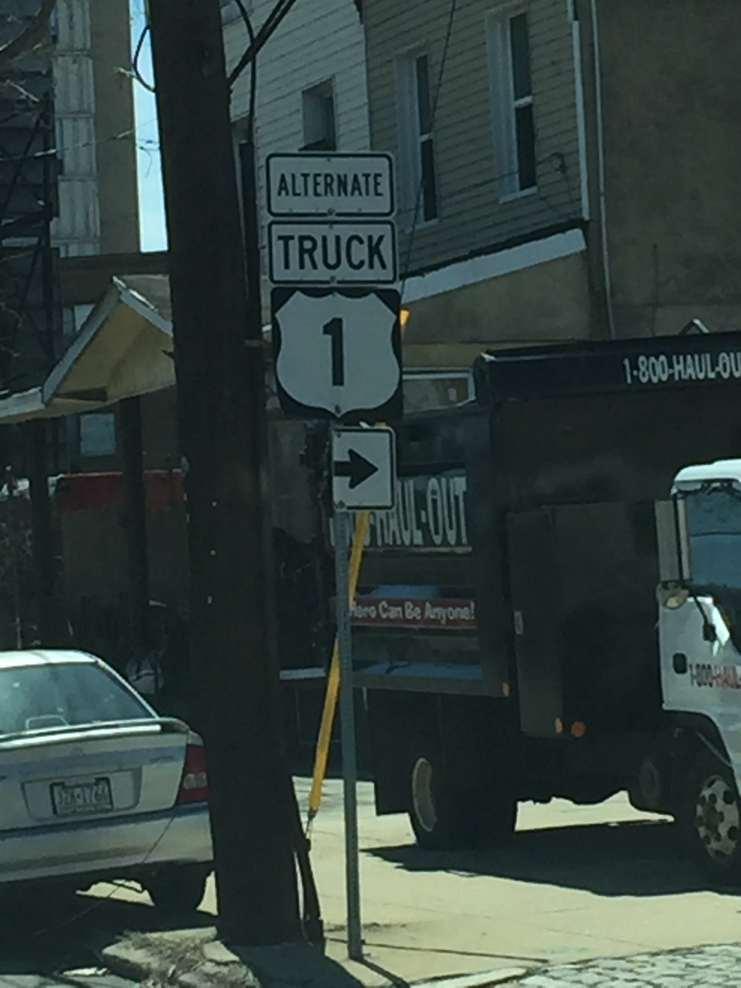 US 1 alt truck